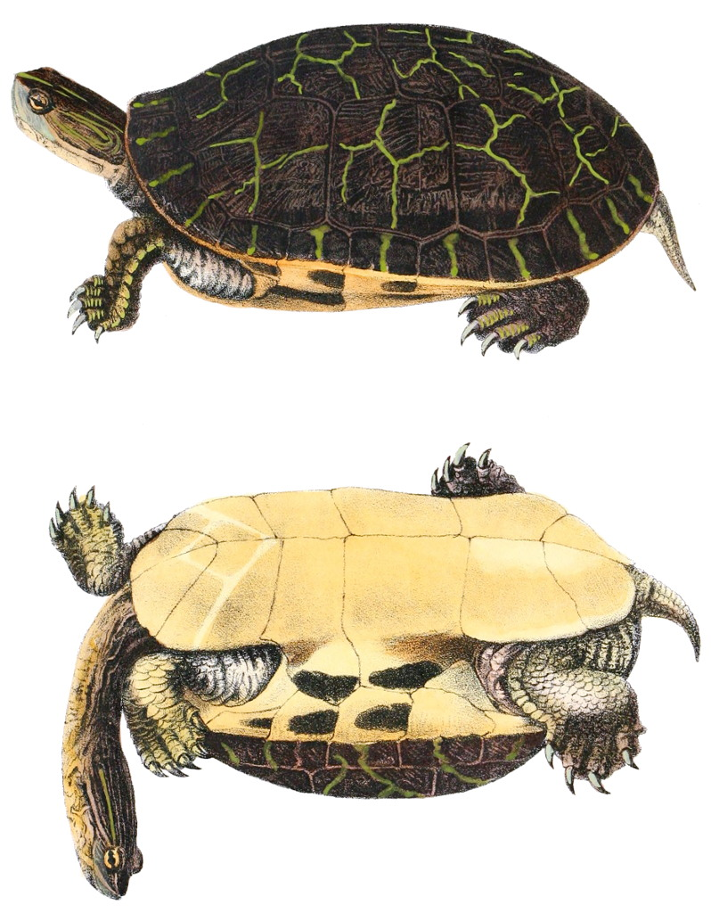 Chicken Turtle, Deirochelys reticularia, hand-colored lithograph